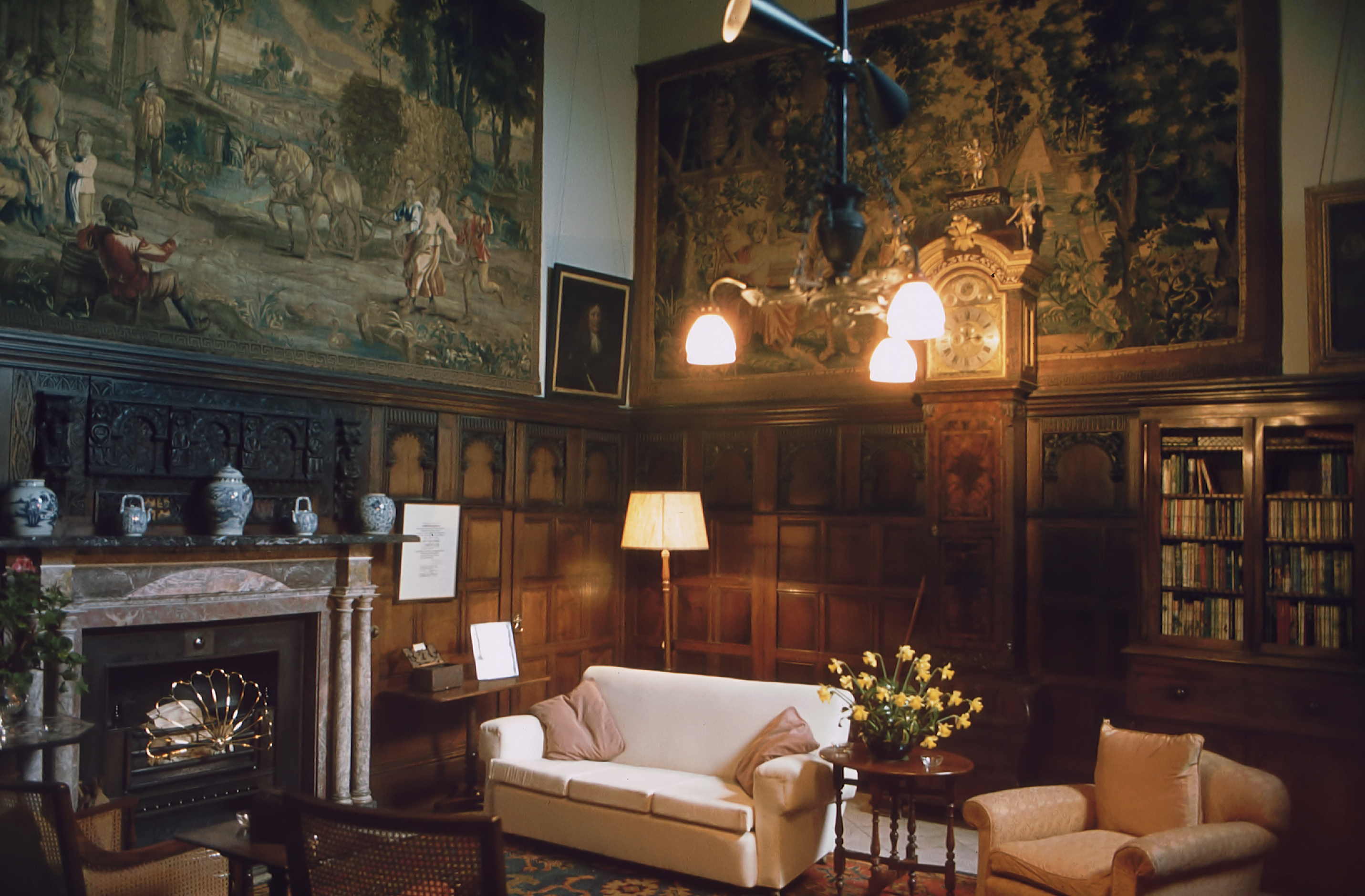 Powderham Castle in Devon/England, marble hall